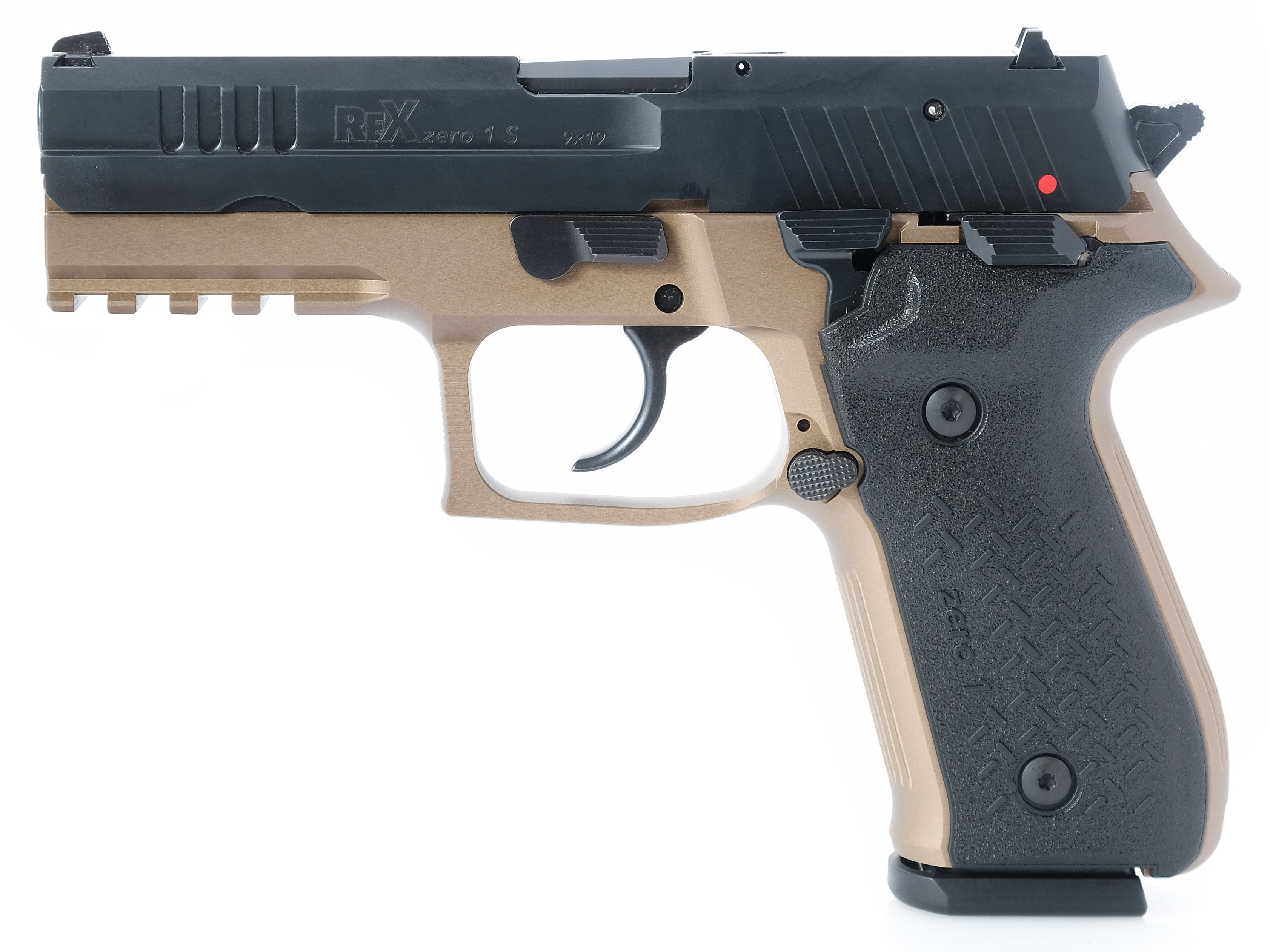 SA/DA pistol Rex Zero-1 S FDE by Arex d.o.o. Slovenia